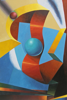 Frequently asked questions, 2008, 150 cm x 100 cm